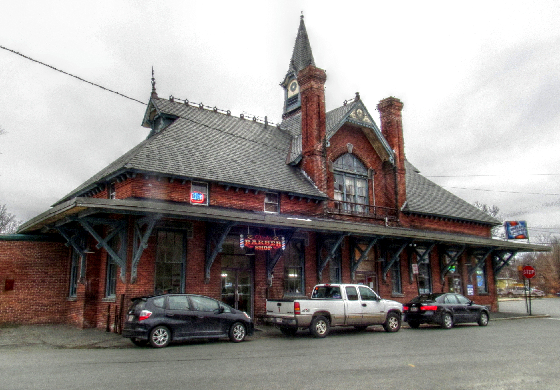 Leominster station in December 2014